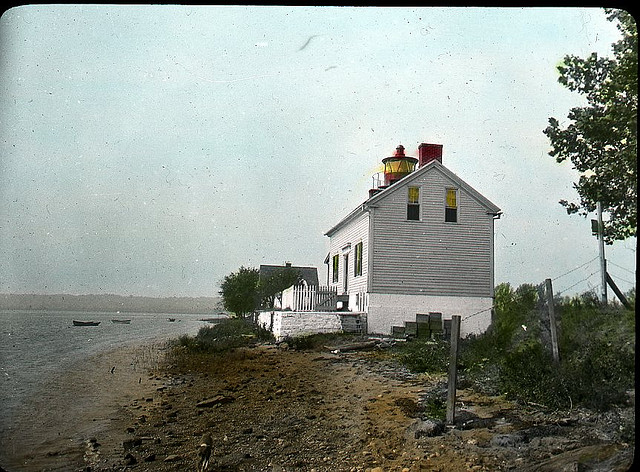 Jones Point Lighthouse, built in 1855, is the oldest inland lighthouse in the US. several yards south of the lighthouse is the south cornerstone marking the southern point of District of Columbia.